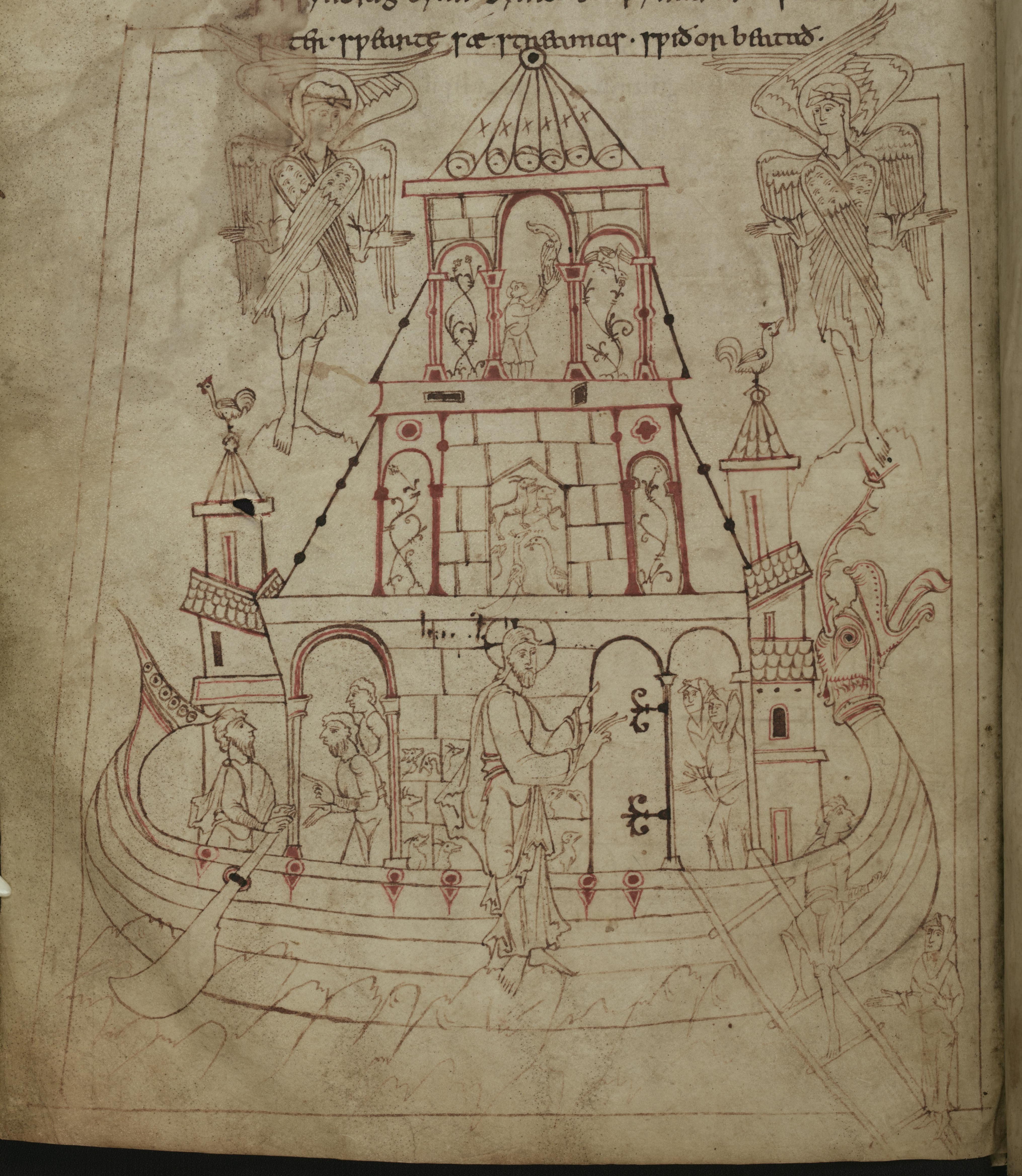 An illustration of Noah's Ark from the Caedmon manuscript, Genesis poem, bk. 21, lines 1356-1370. "And Noah departed, as the Lord commanded, embarking his household upon the ark, leading up his sons into the ship, and their wives with them... And Our Lord blessed all within the Ark with His blessing."